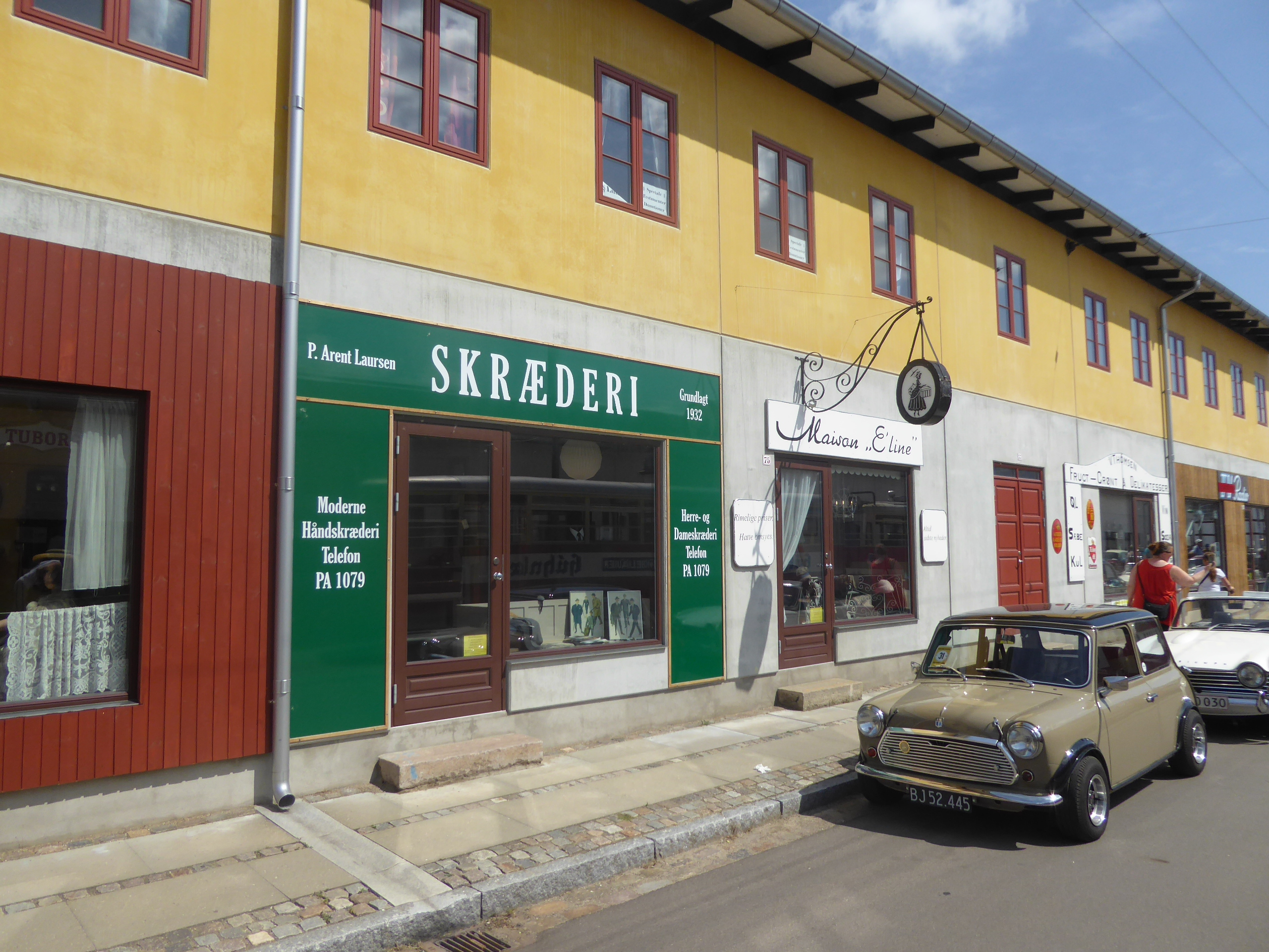 Reconstruction of a tailor's shop and a hatter's shop as part of the tram depot Remise 3 at Sporvejsmuseet Skjoldenæsholm in Denmark. One side of the depot is made to look like a row of buildings with various shops. The automobiles are due to a gathering of historical automobiles at the museum that day.